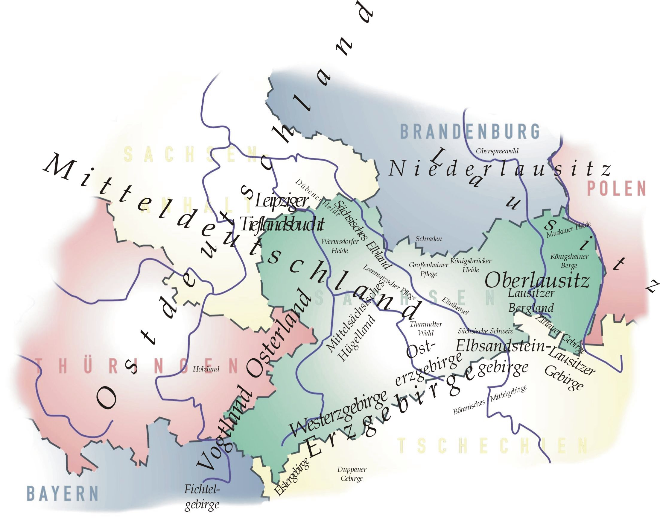 map of landscapes of Saxony